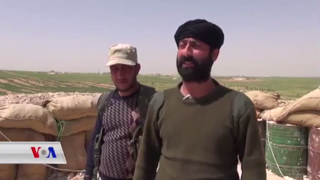 Saadoun al-Faisal, also known as Abu Layla, the commander of the Northern Sun Battalion.